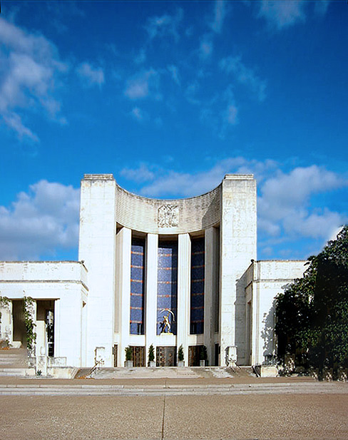 Exterior of the Hall of State at the State Fair of Texas.